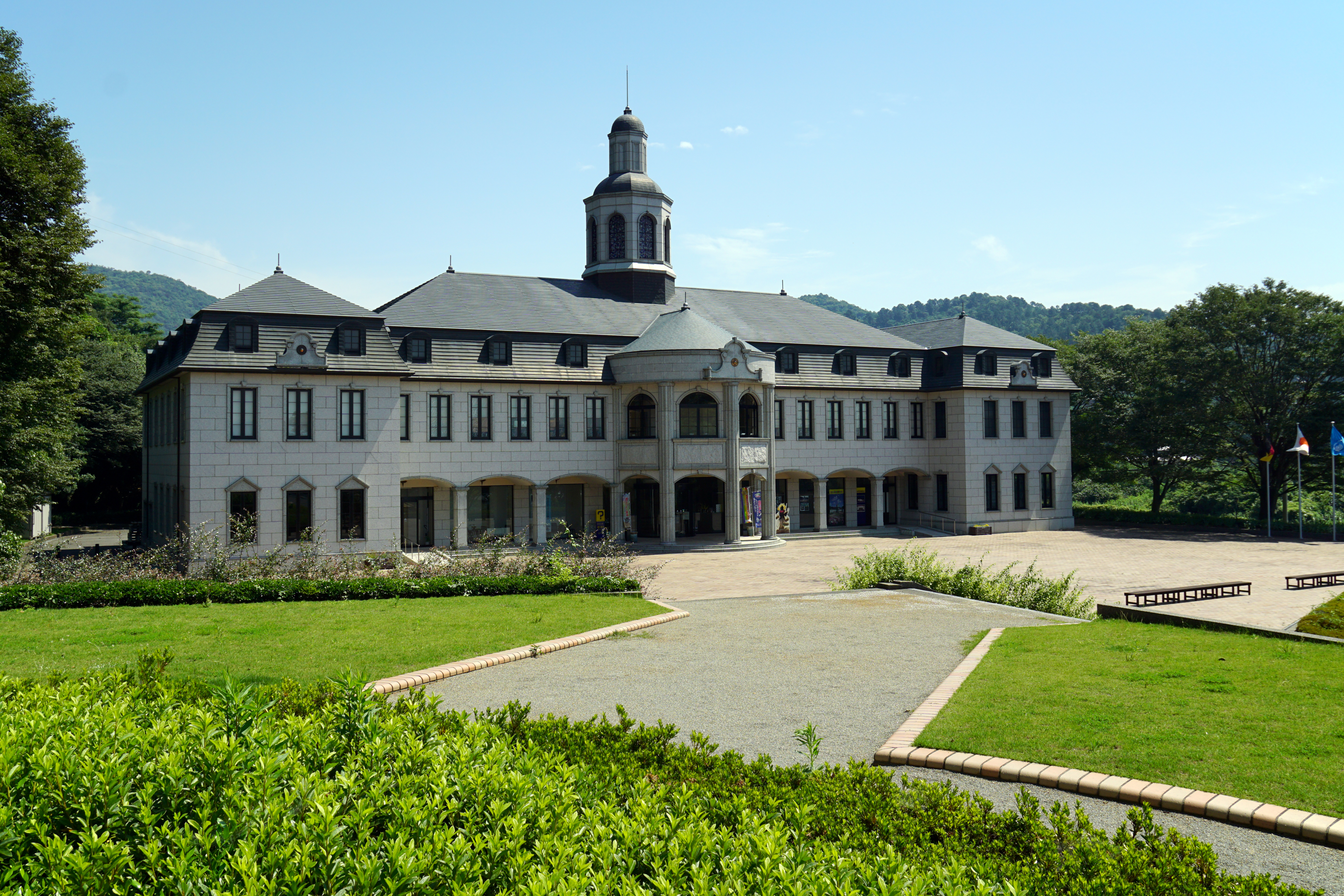 Naruto_German_House in Naruto, Tokushima prefecture, Japan.